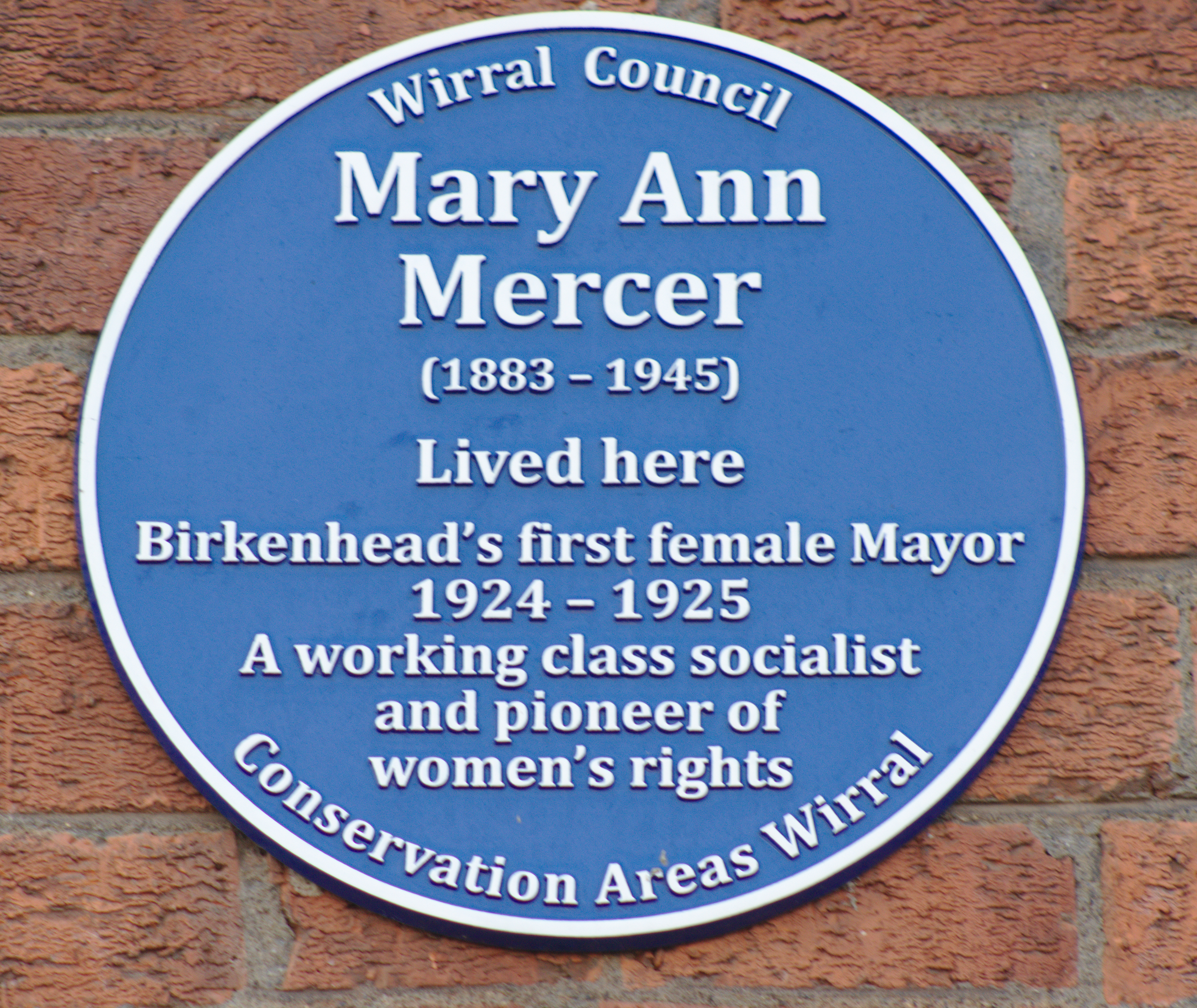 Plaque103 Norman Street, Birkenhead to Mary Ann Mercer, the first woman mayor of Birkenhead and probably the second woman mayor in England.